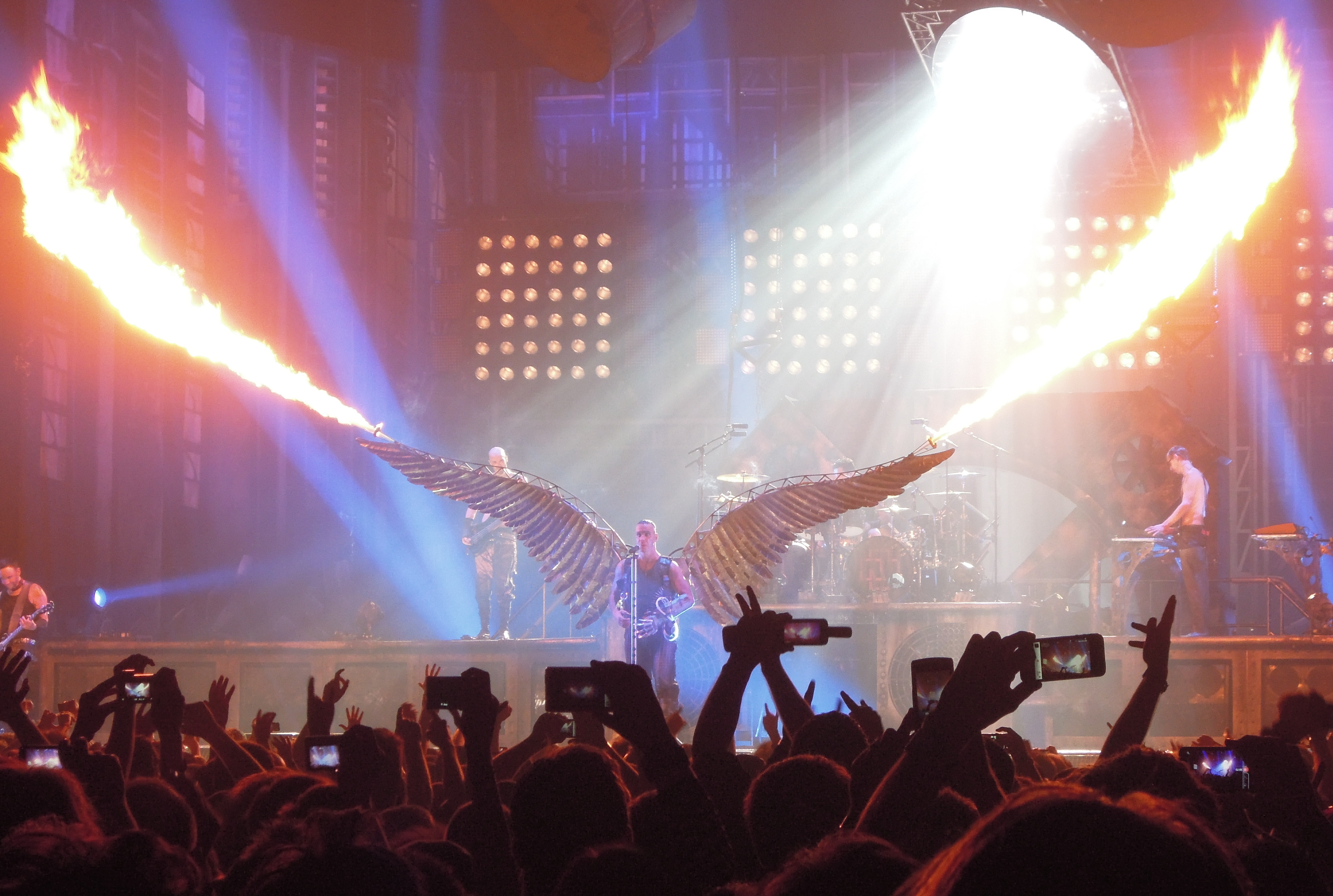 Rammstein performing Engel live in London 24 February 2012